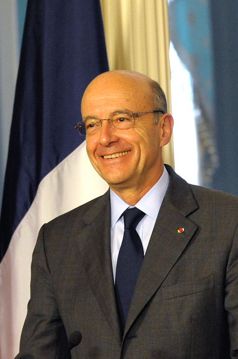 French Foreign Minister Alain Juppe, at the Department of State on June 6, 2011